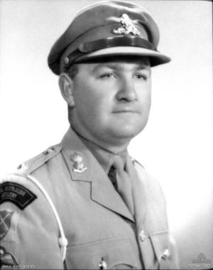 Second Lieutenant (later Major) Peter John Badcoe, an officer in the Australian Army who was posthumously awarded the Victoria Cross for his actions in the Vietnam War during 1967.